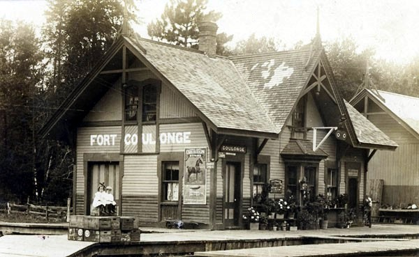 Fort-Coulonge railway station